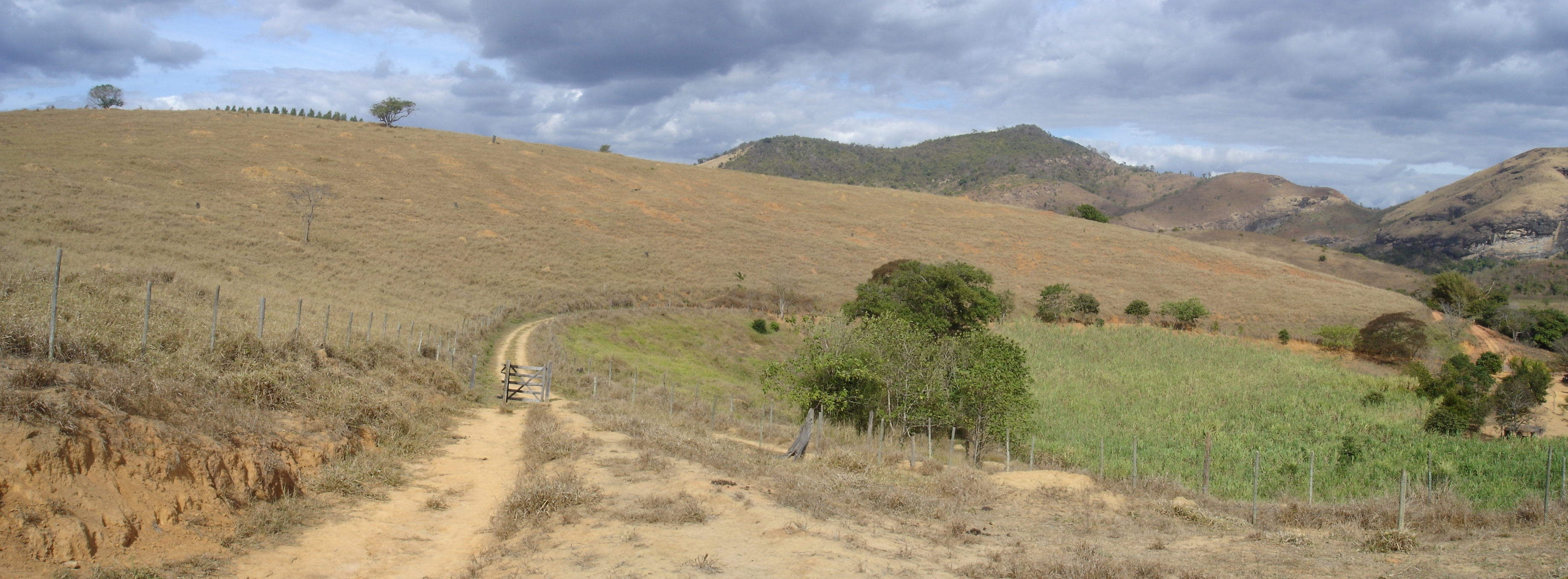 Pastures in Pingo-d'Água, Minas Gerais, Brazil.